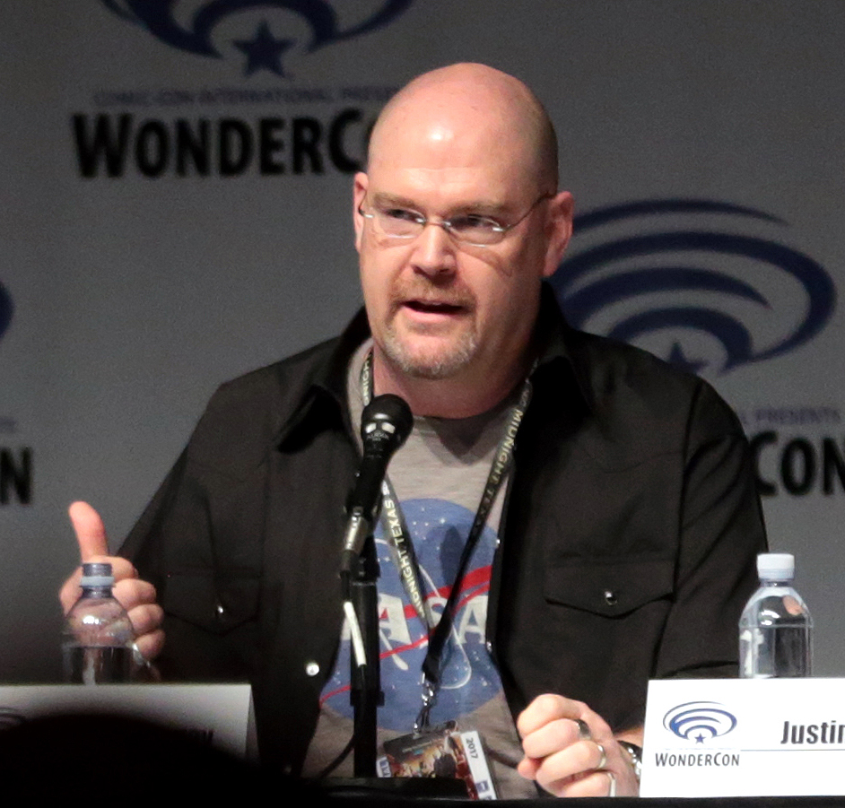 Trey Callaway speaking at the 2017 WonderCon in Anaheim, California.